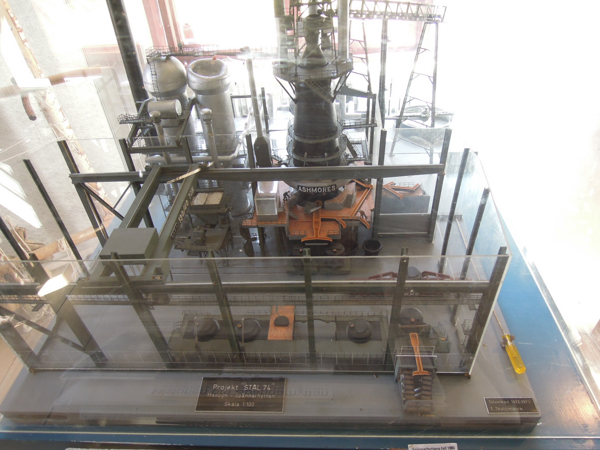 Spännarhyttan Model of project Stål 74. Bergslagens medeltidsmuseum, Norberg, Sweden.